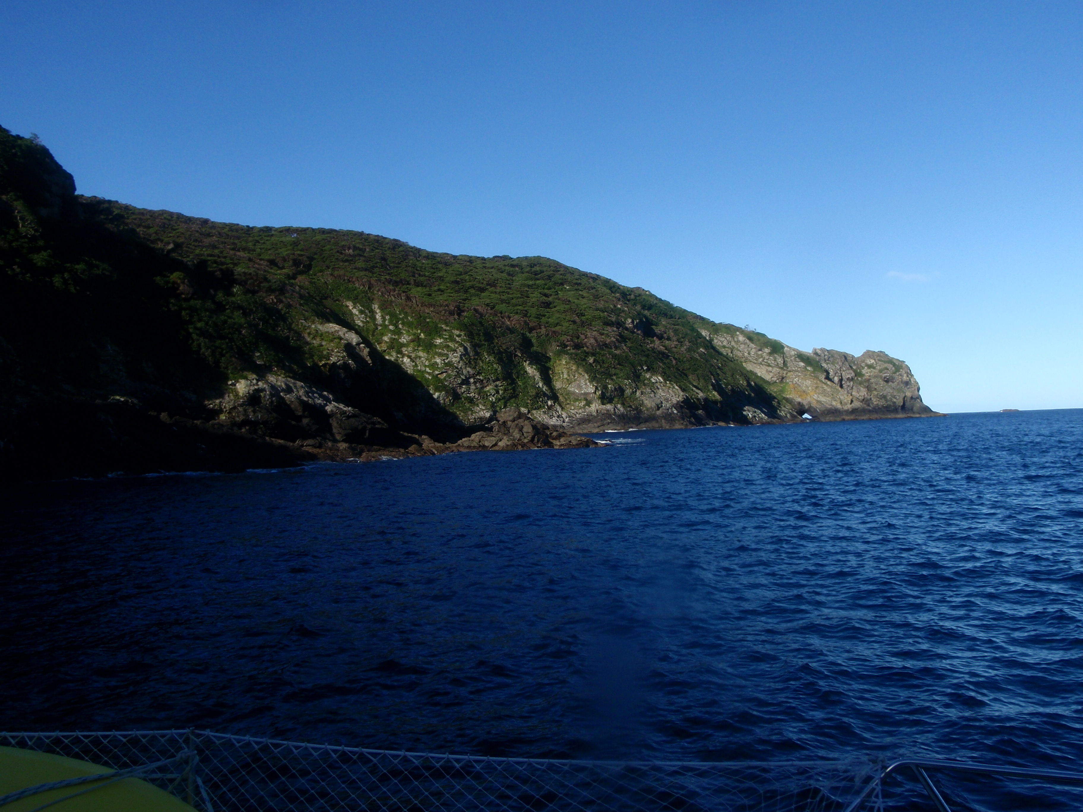 Three Kings Islands